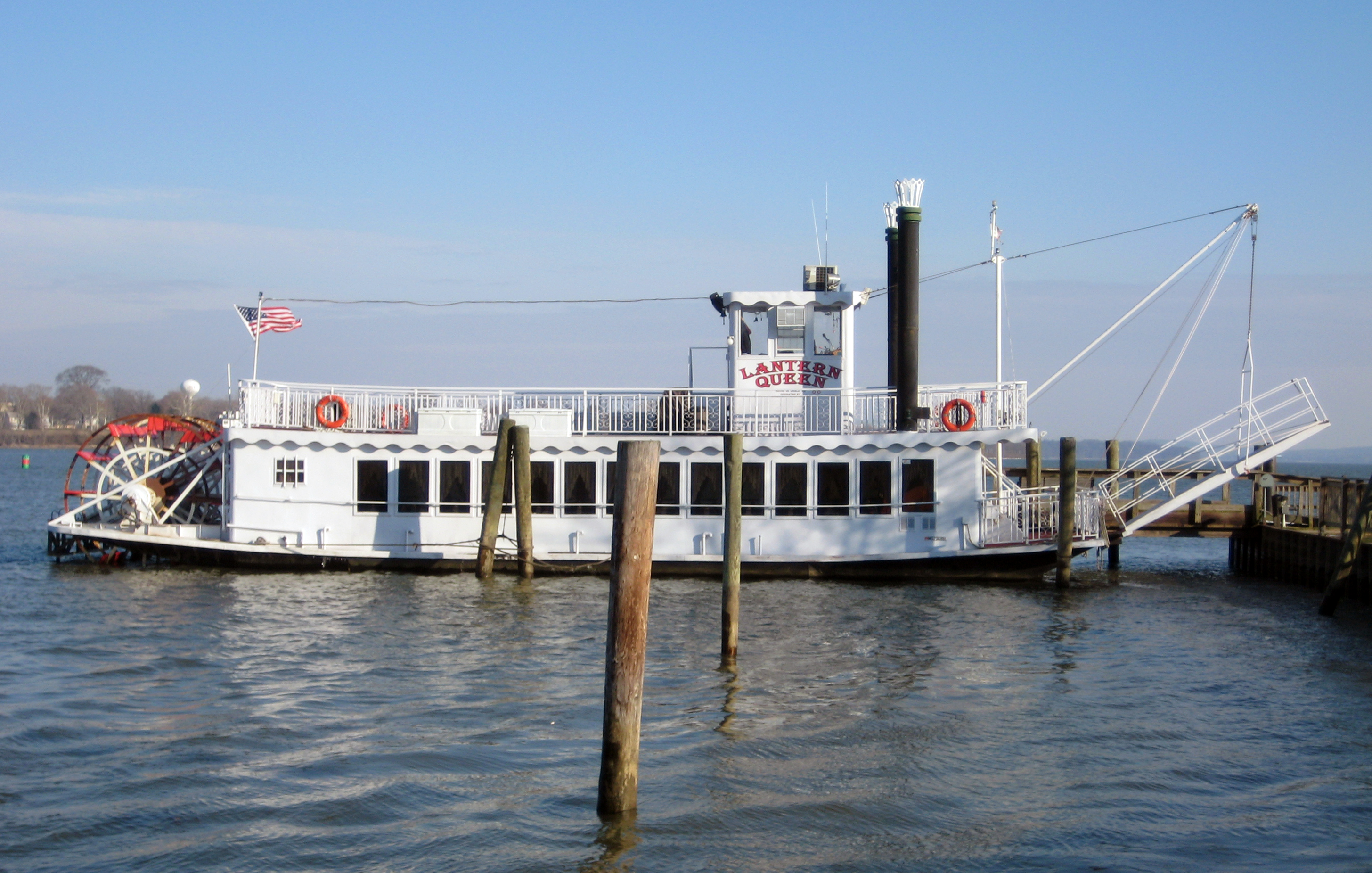 The sternwheel paddle steamer Lantern Queen docked at Hutchins Park in Havre de Grace, Maryland, on December 19, 2010.